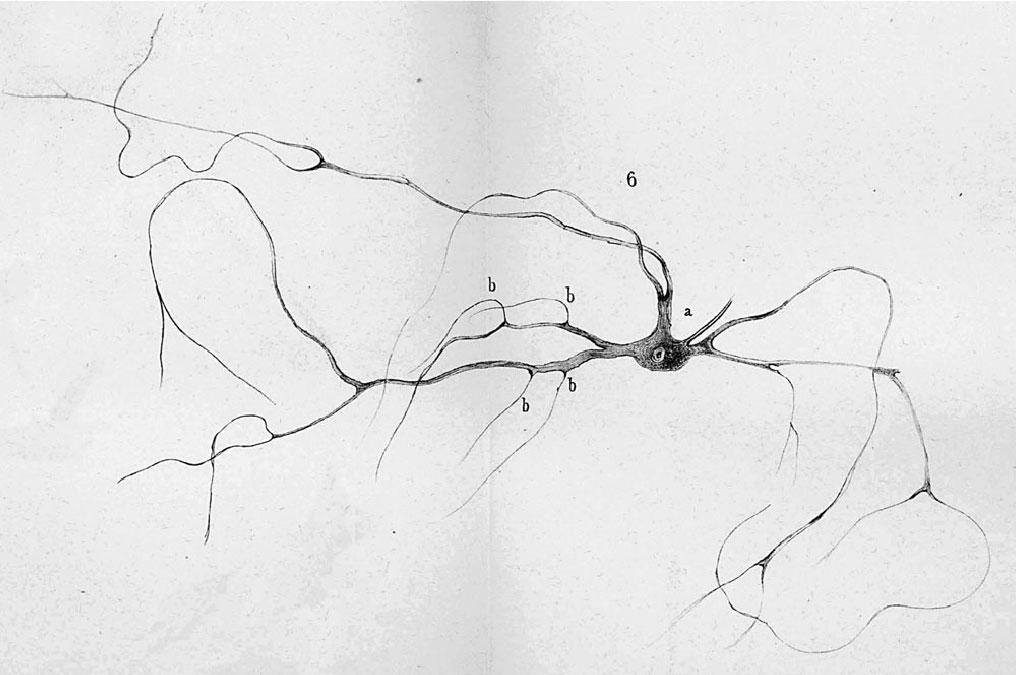 Neuron with axon (Deiters 1865)